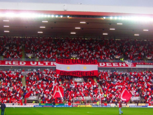 The Red Army having a pre-match display, organised by the supporters group, The Red Ultras.